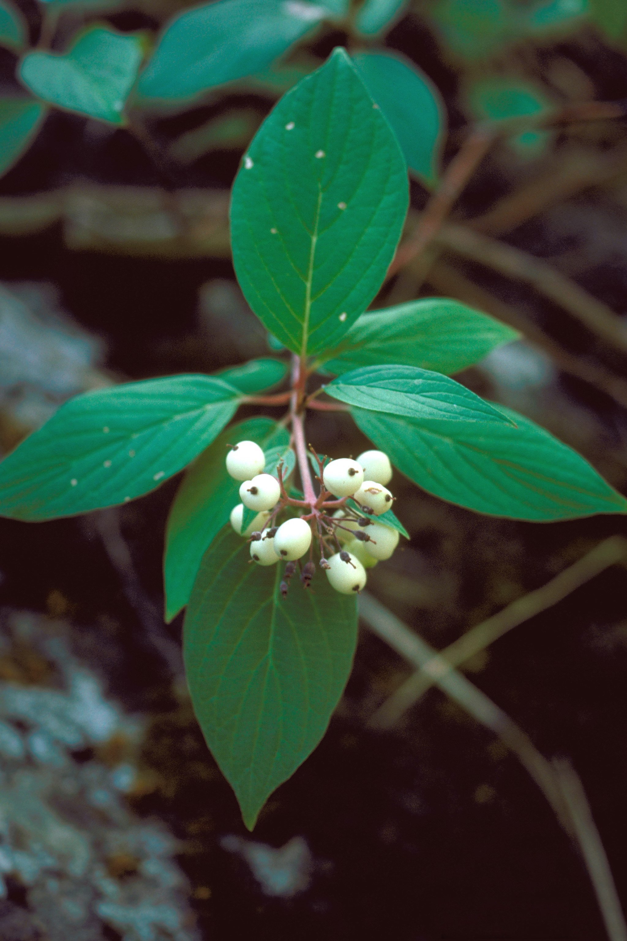 Cornus sericea ssp. sericea L. - Red osier dogwood - close-up of foliage and white fruits